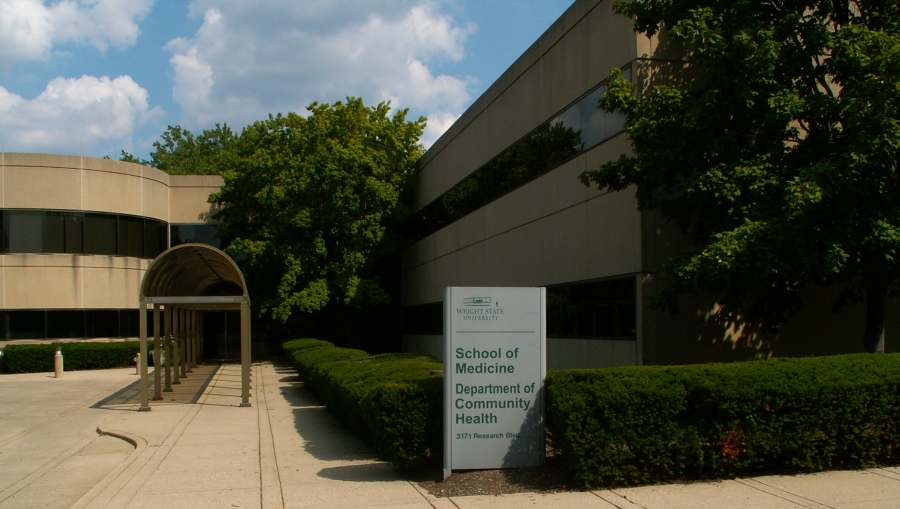 Wright State University Department of Community Health, located at 3171 Research Blvd., Fairborn, Ohio, USA.